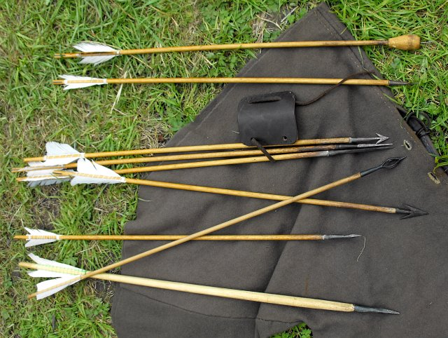 Variety of arrows used in mediaeval England